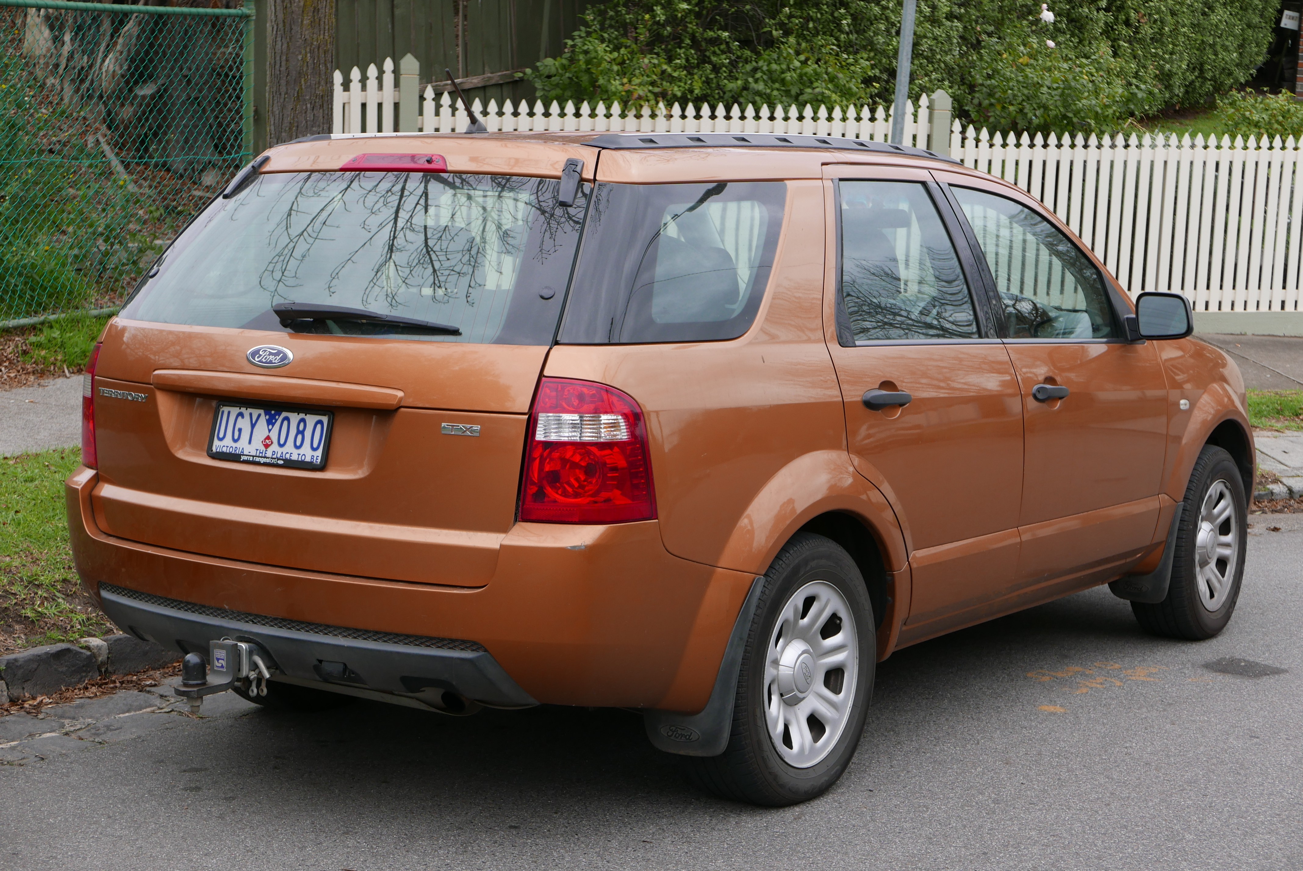 2006 Ford Territory (SY) TX RWD wagon. Photographed in Kew, Victoria, Australia. Vehicle registration enquiry resultsJurisdictionVictoriaRegistrationUGY080Chassis code6FPAAAJGAT6J86541Engine codeJGAT6J86541Compliance date2006-05Year of manufacture2006